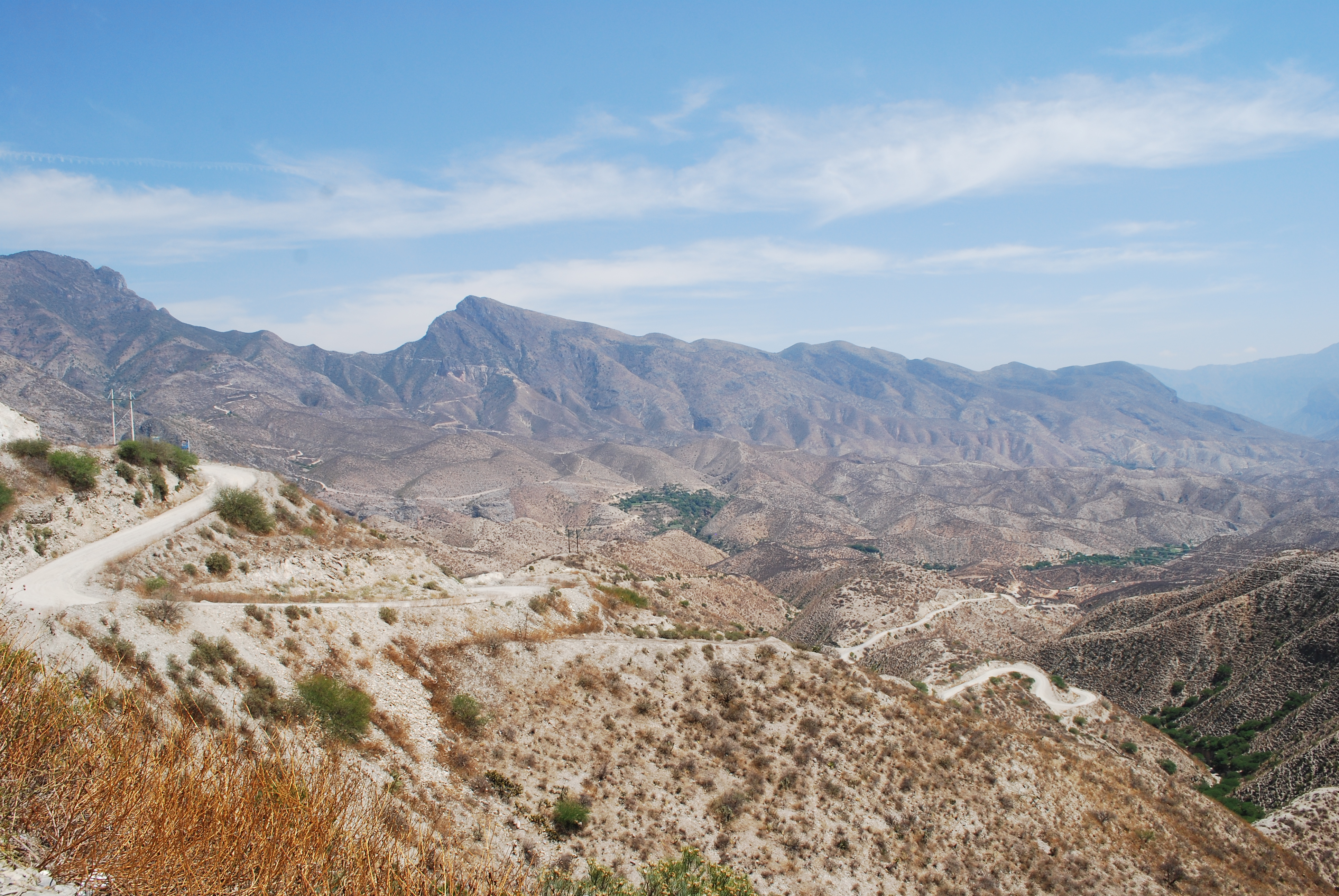 Dirt road leading from Highway 120 to La Plazuela in Peñamiller, Querétaro, Mexico